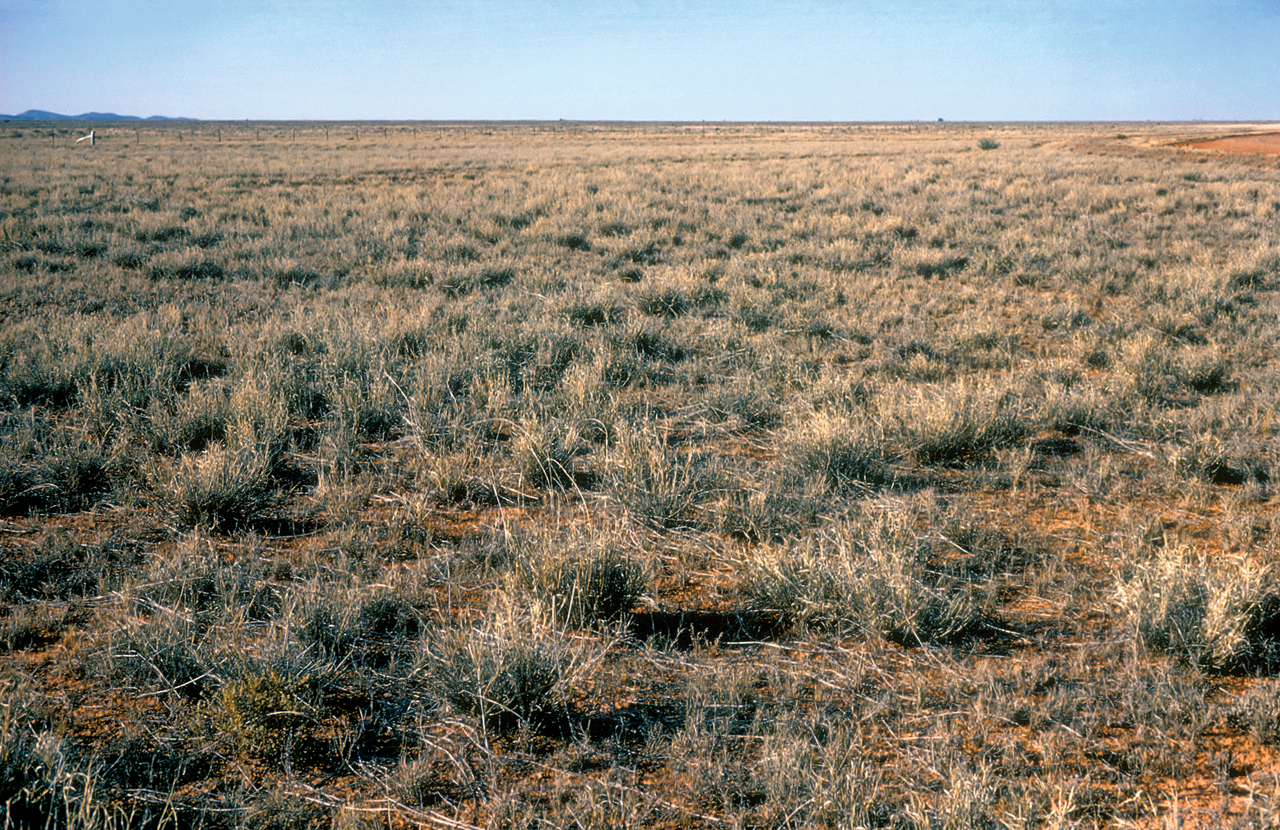 Mitchell Grass near Alice Springs in Central Australia, NT. 1978.